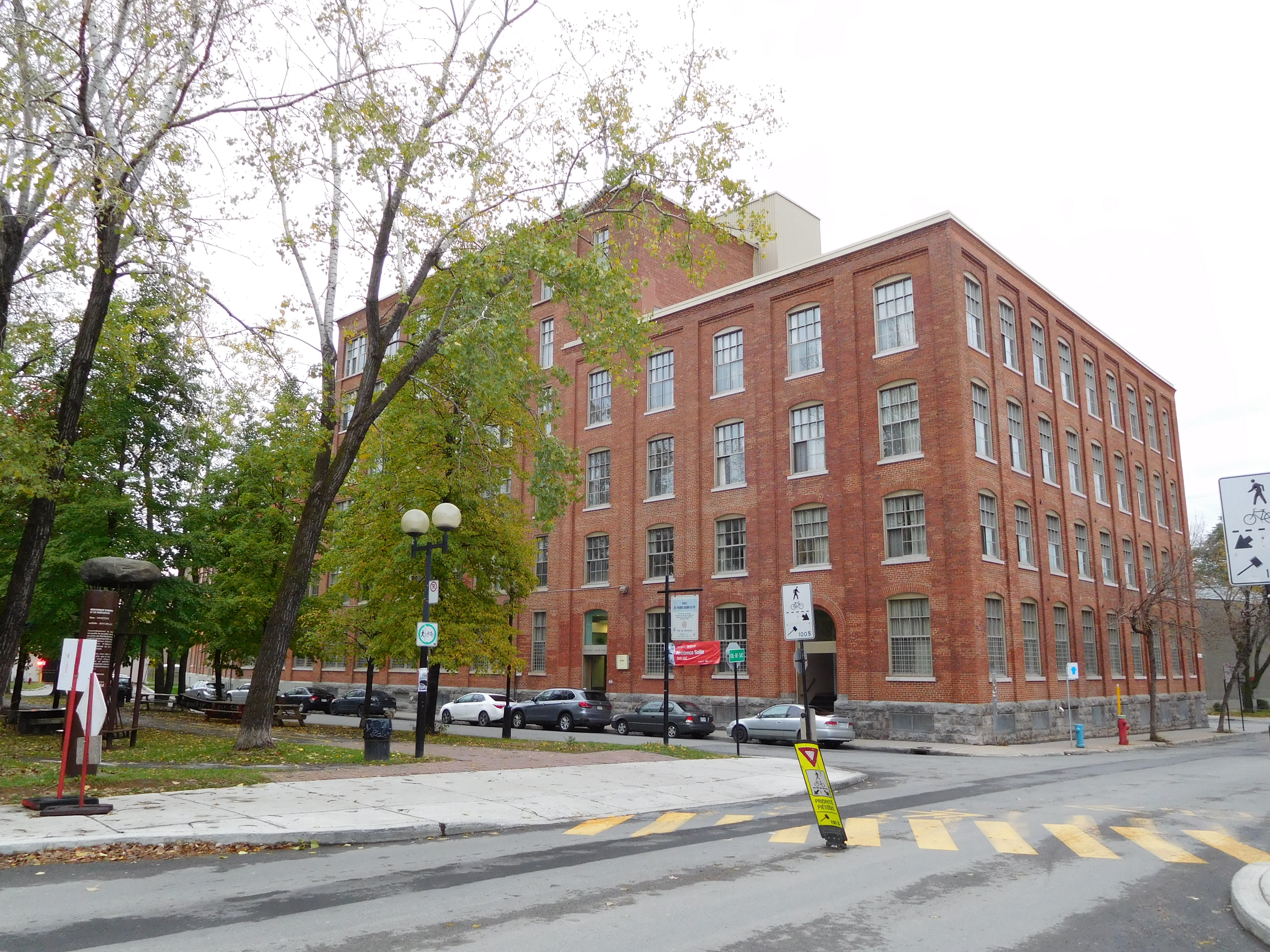 Solin Hall, McGill University Residence